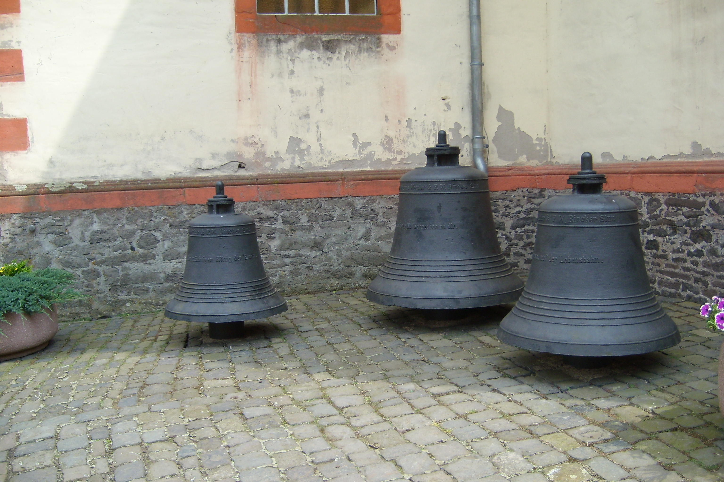 Ruppertsburg, a rural district of Laubach in Hesse - old bells beneath the church.